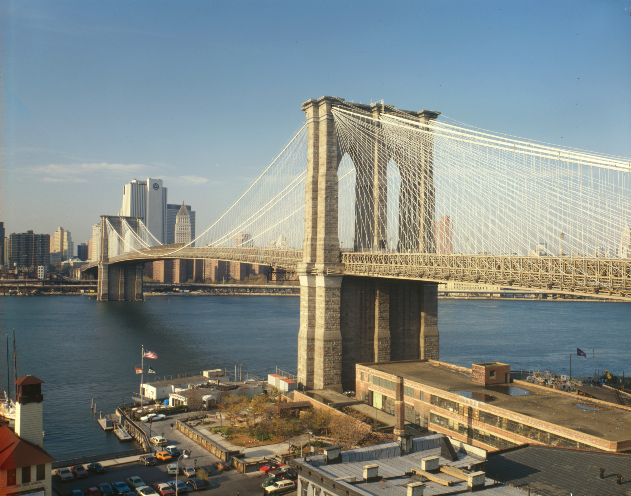 Brooklyn Bridge, spanning East River between Brooklyn & Manhattan, New York City, New York County, NY. View looking north with former Brooklyn ferry slip in foreground